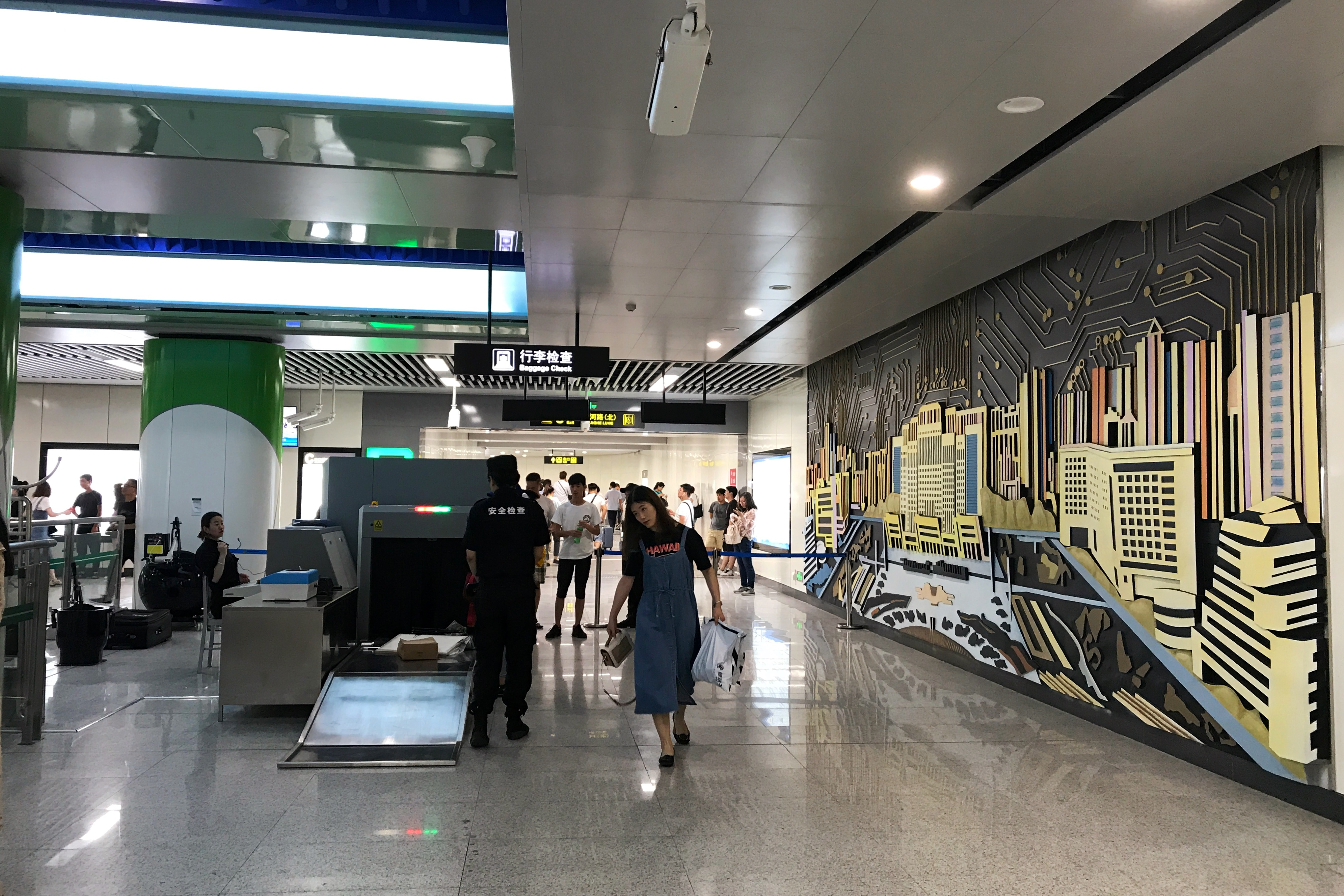 West concourse of Yaozhai Station